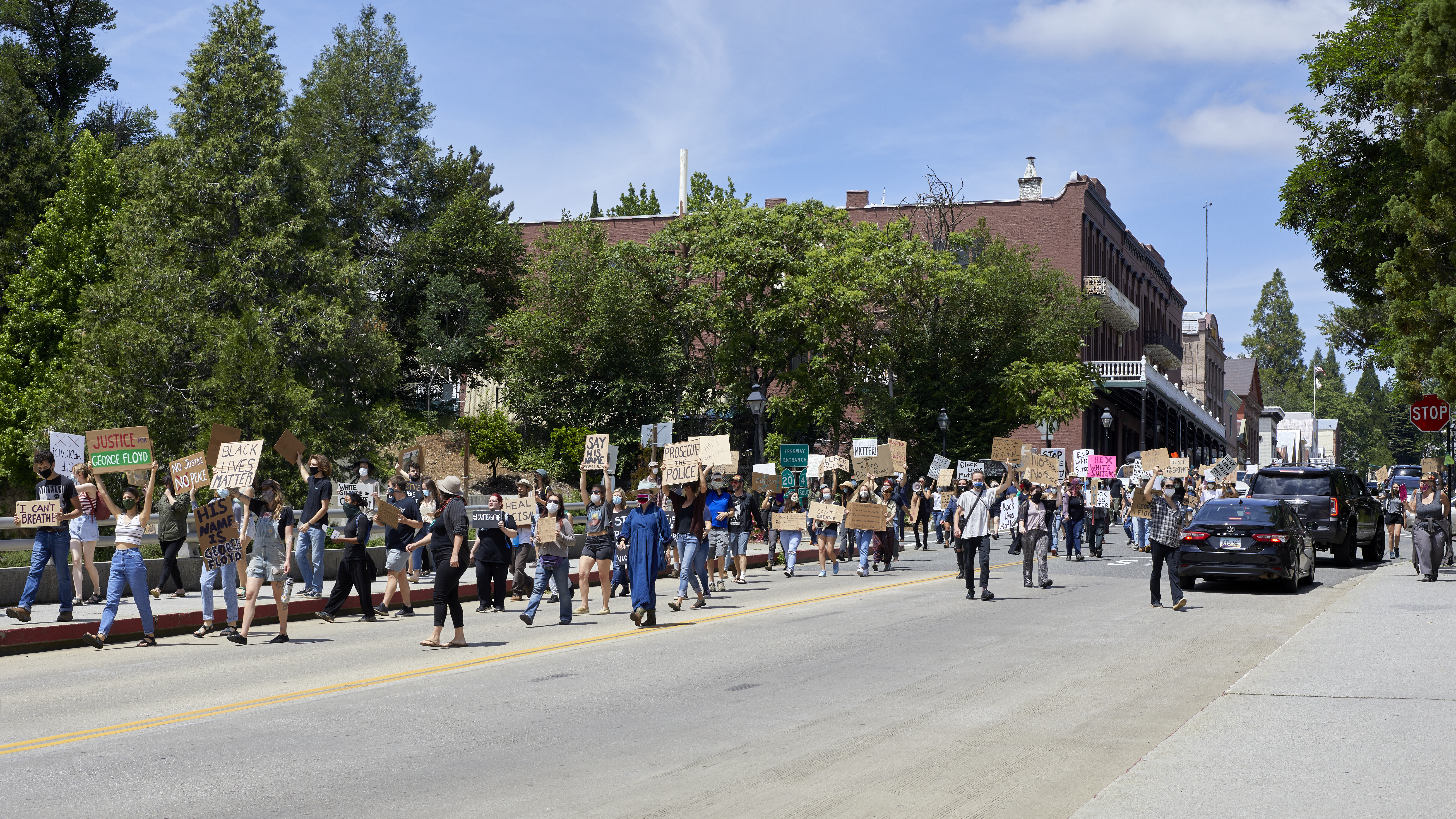 George Floyd protest in Nevada City, California, on Sunday, May 31, 2020.